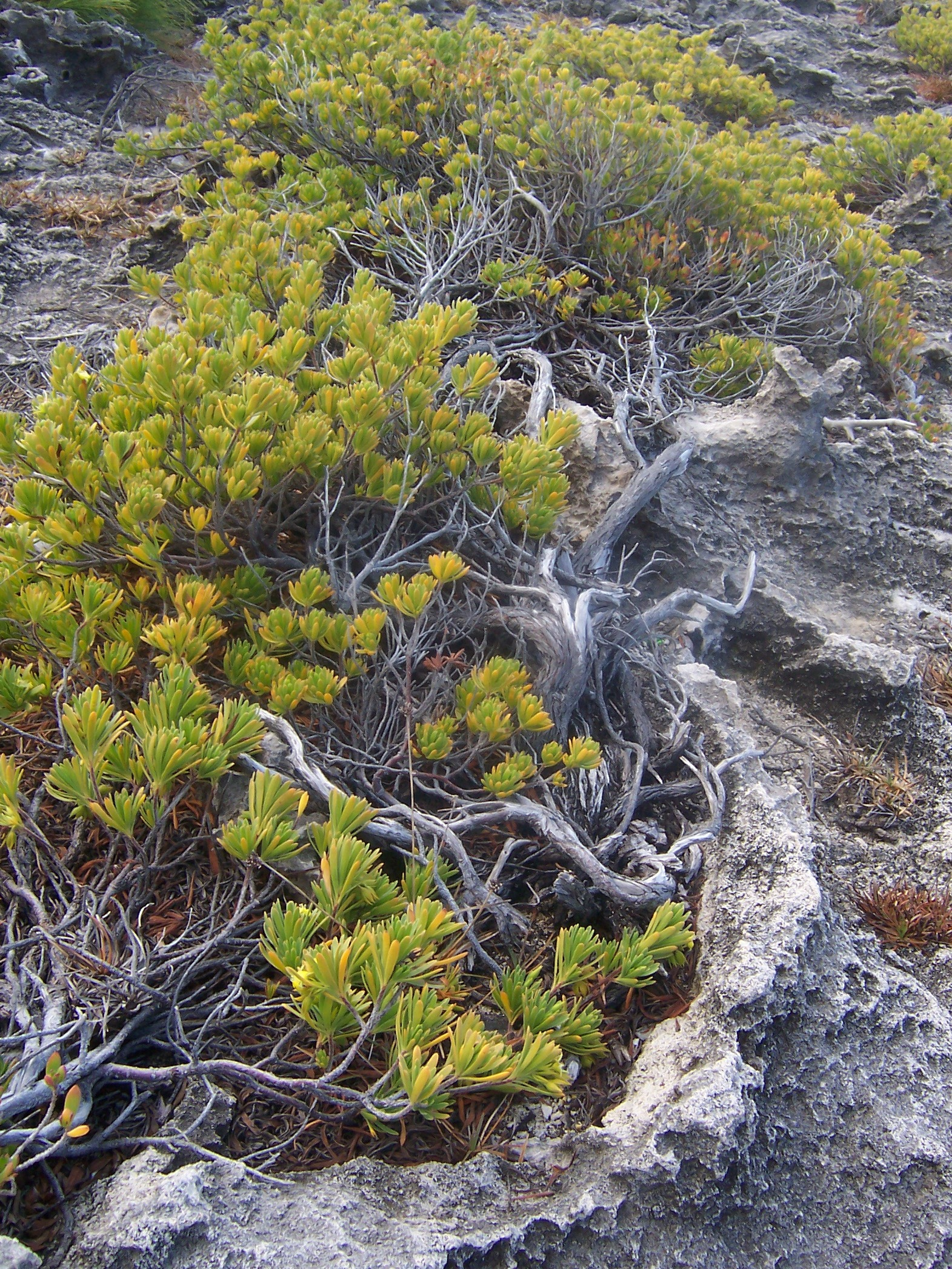 Suriana maritima (Surianaceae), shrub creeping on a calcarenitic shore of Rodrigues island exposed to strong winds